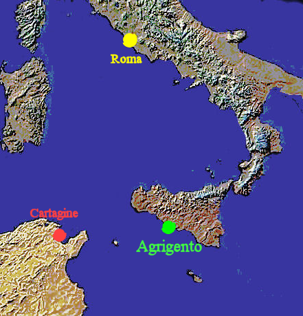 Locantion of Agrigentum in First Punic War author Horatius (wiki)